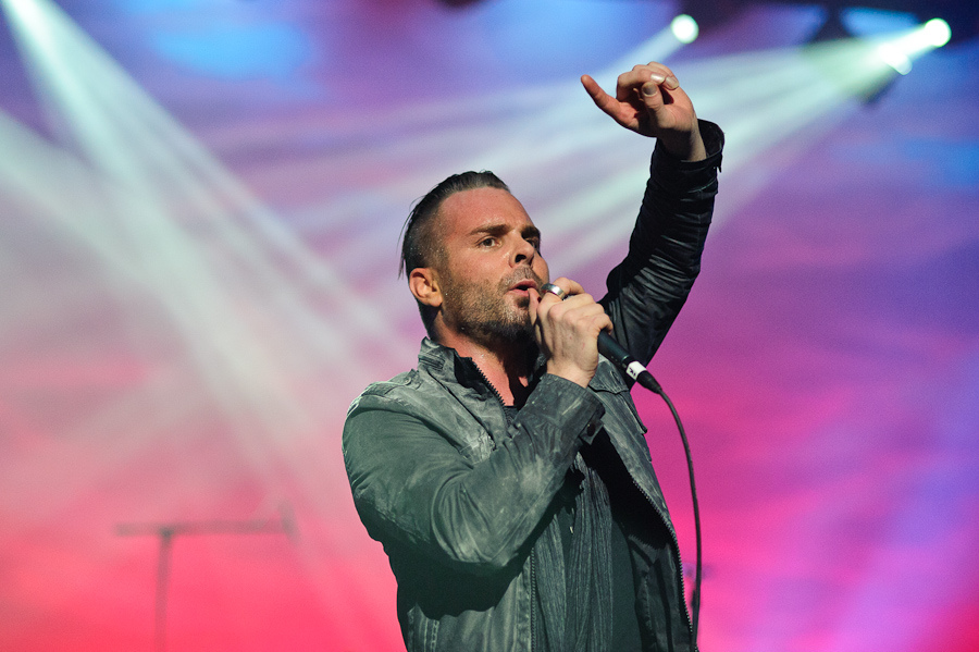 Chris Shinn, lead singer of Live, performing at the Strand-Capitol Performing Arts Center on March 12, 2012.